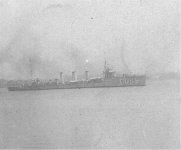 USCG Patterson (CG-16) circa 1928 on Coast Guard service, location unknown.